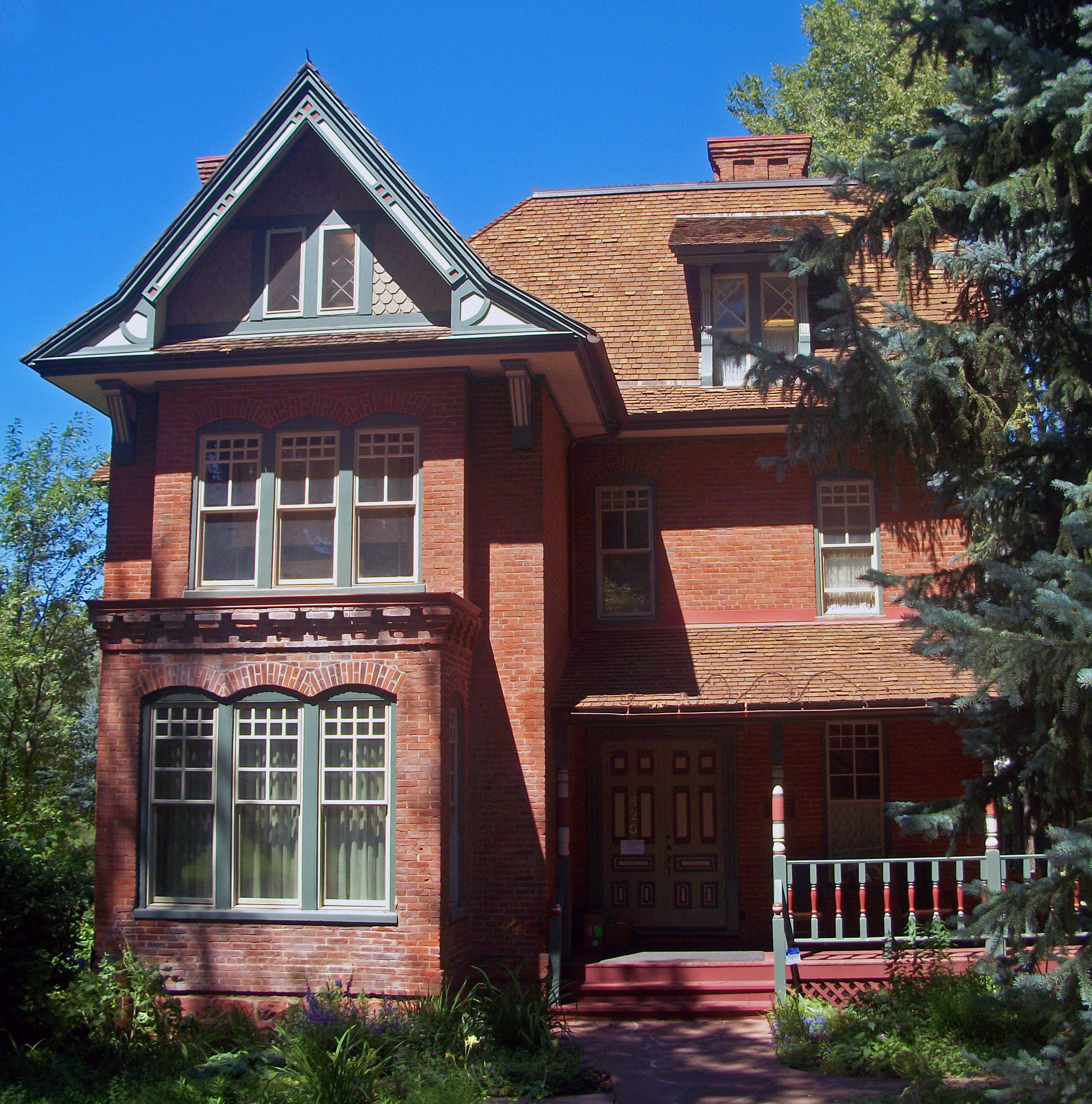 Wheeler–Stallard House in Aspen, CO, USA, current home of the Aspen Historical Society and used partly as a museum